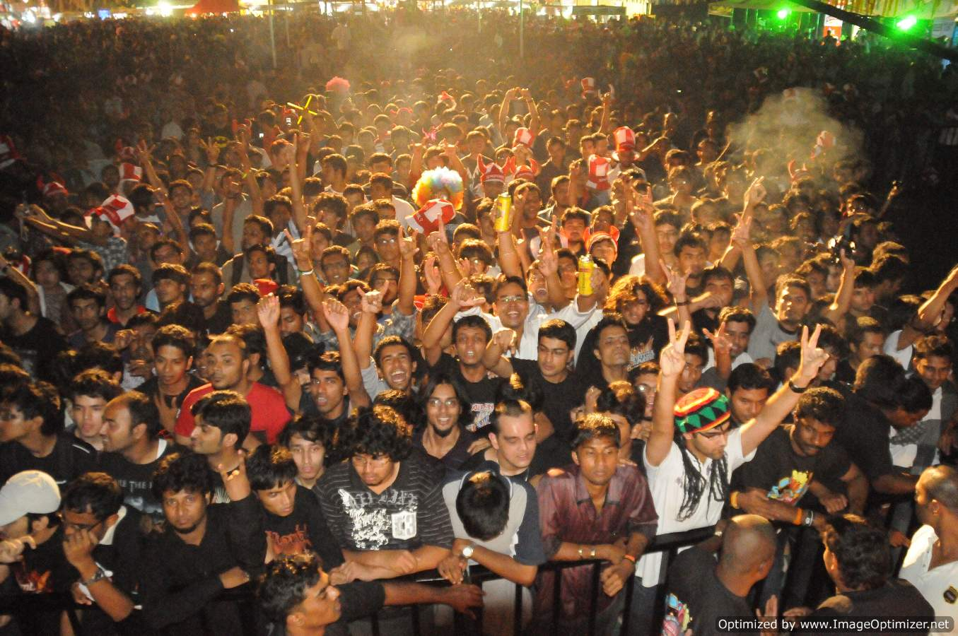 Crowd shot of Kingfisher The Great Indian October Fest 2010